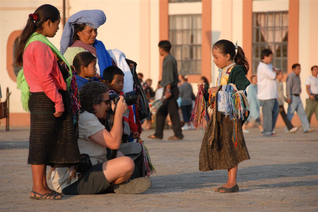 Victor Diaz Lamich, Canadian photographer, India